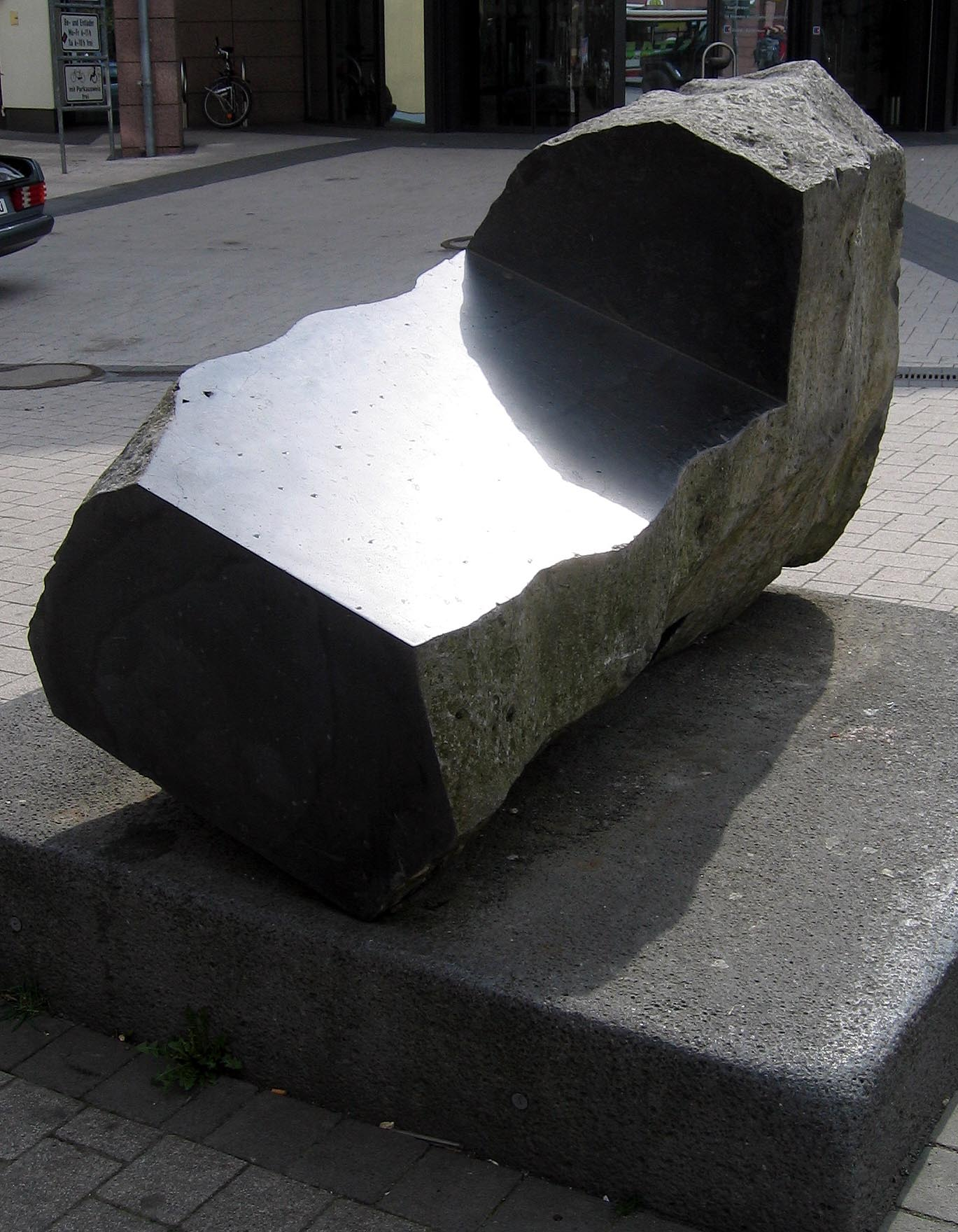 public stone sculpture by Georg Hüter